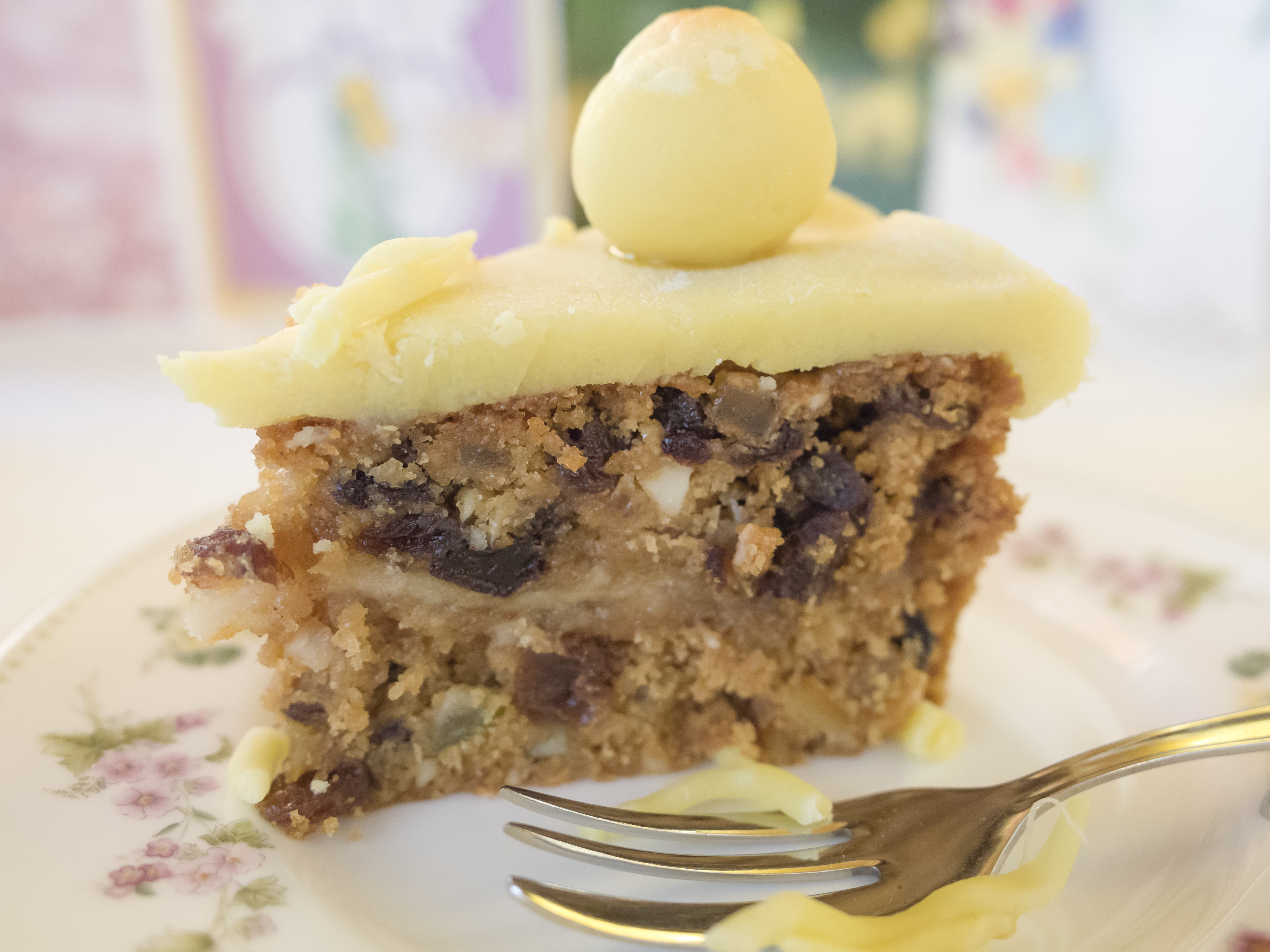 Made by my mother and grandmother, decorated by my father